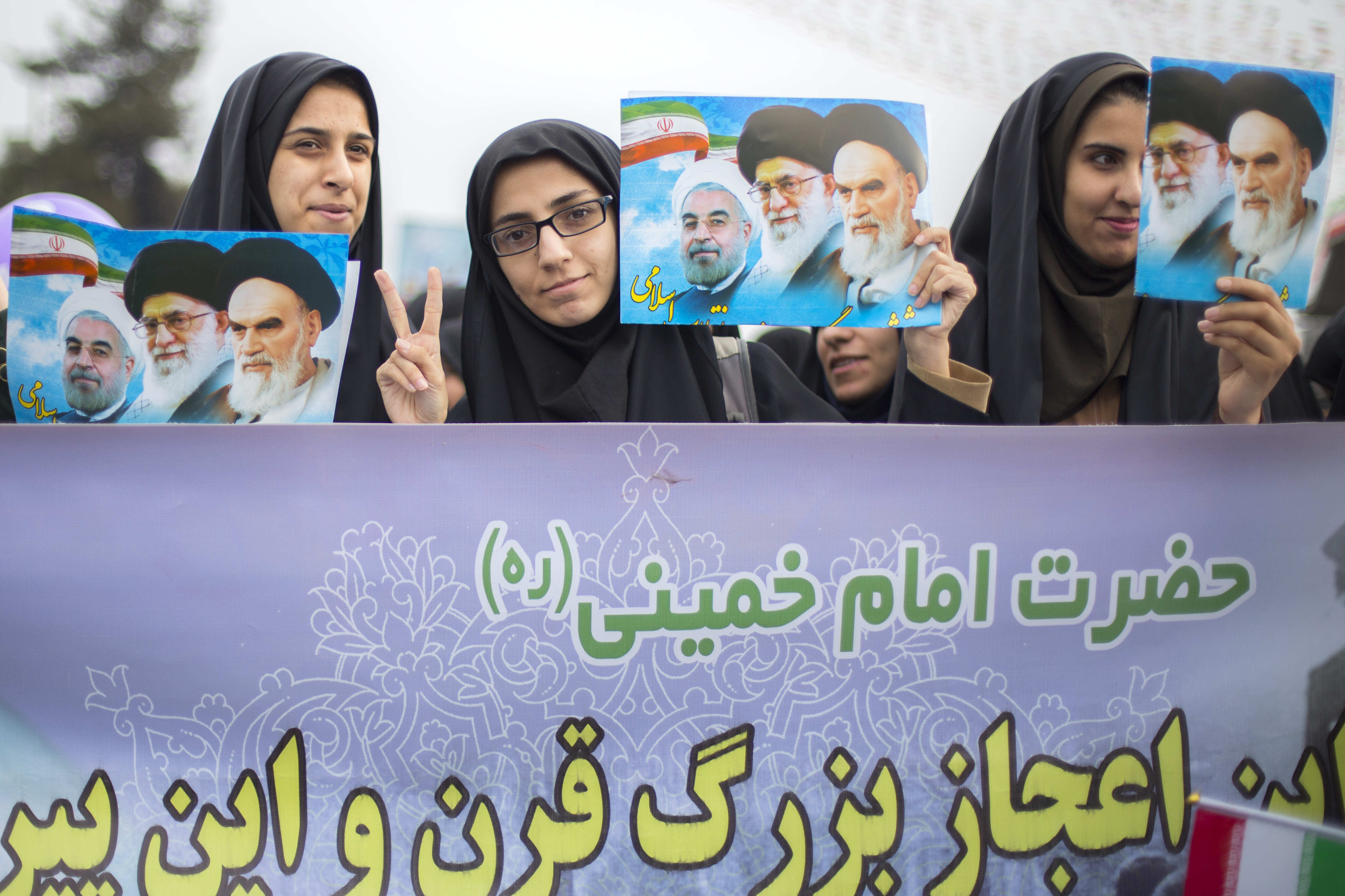 The anniversary of Islamic revolution is celebrated on 11 February 1979 and Iranian marches toward Azadi Tower. This political celebration held on the last day of Fajr decade.